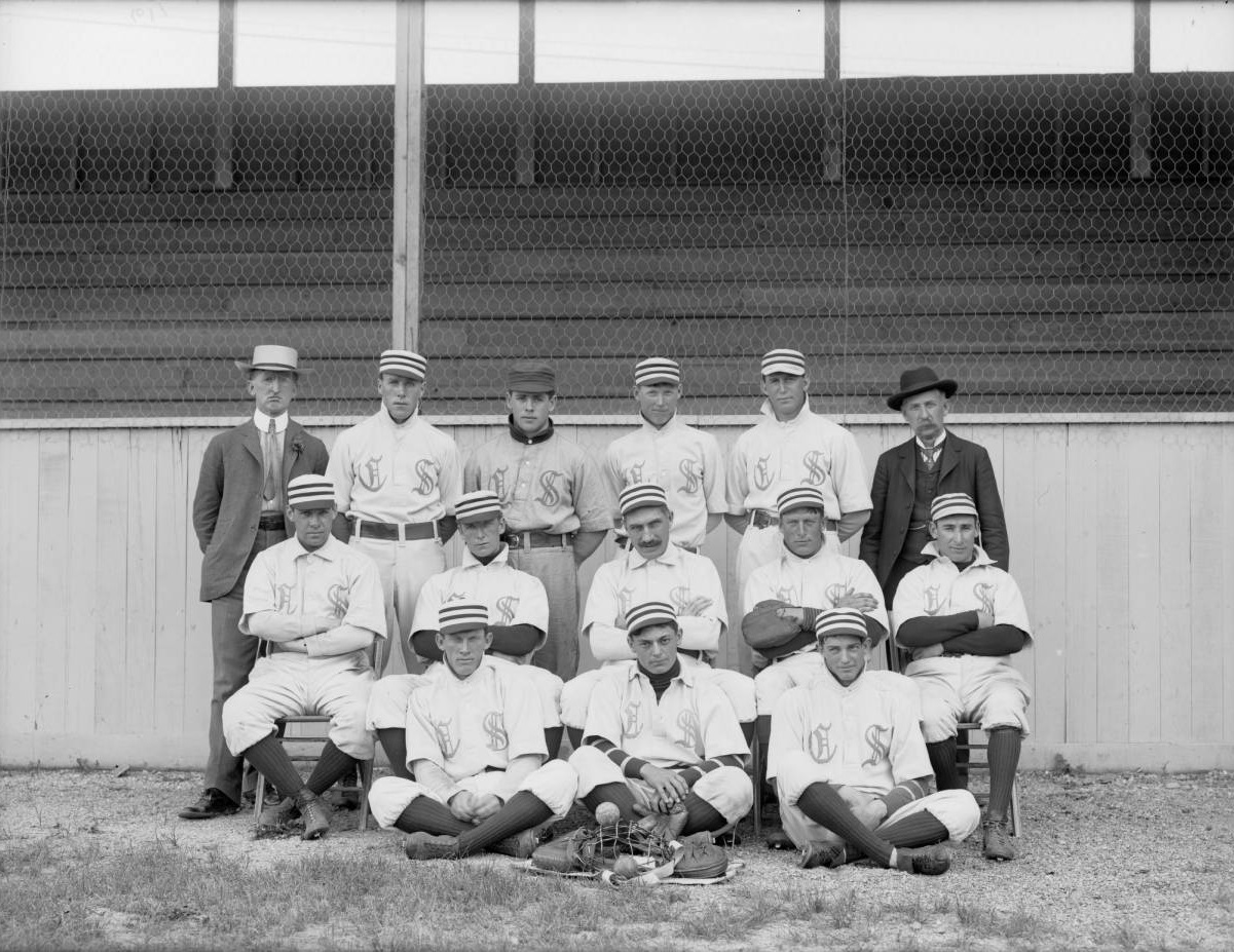 Colorado Springs Millionaires baseball club and their coaches pose near a fence in Broadway Park at Broadway and 6th (Sixth) Avenue in Denver, Colorado.